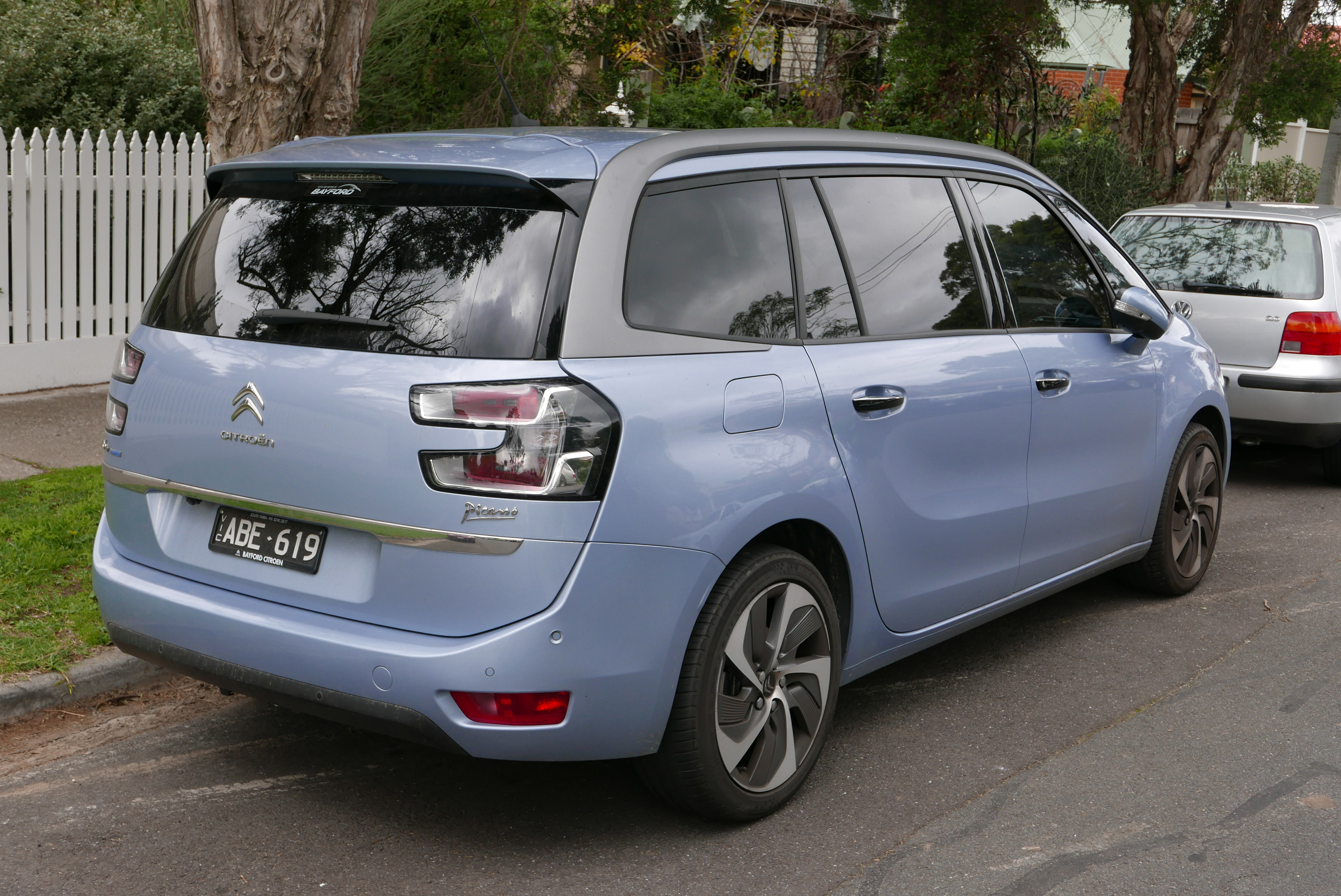 2014 Citroën Grand C4 Picasso (B7) Exclusive van. Photographed in Northcote, Victoria, Australia. Vehicle registration enquiry results Jurisdiction Victoria Registration ABE619 Chassis code VF73AAHXTDJ886060 Engine code 10DYZP4002033 Compliance date 2014-03 Year of manufacture 2014